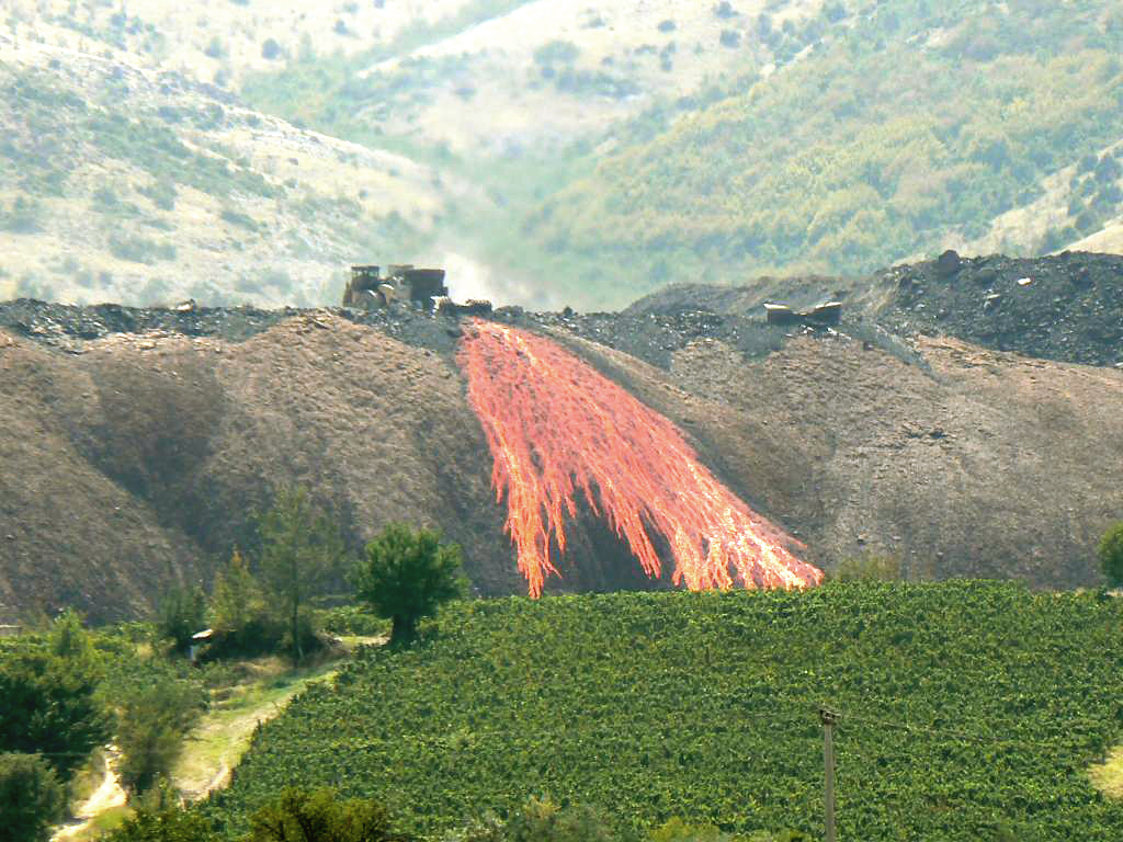 Feni industries near Kavadarci, Macedonia